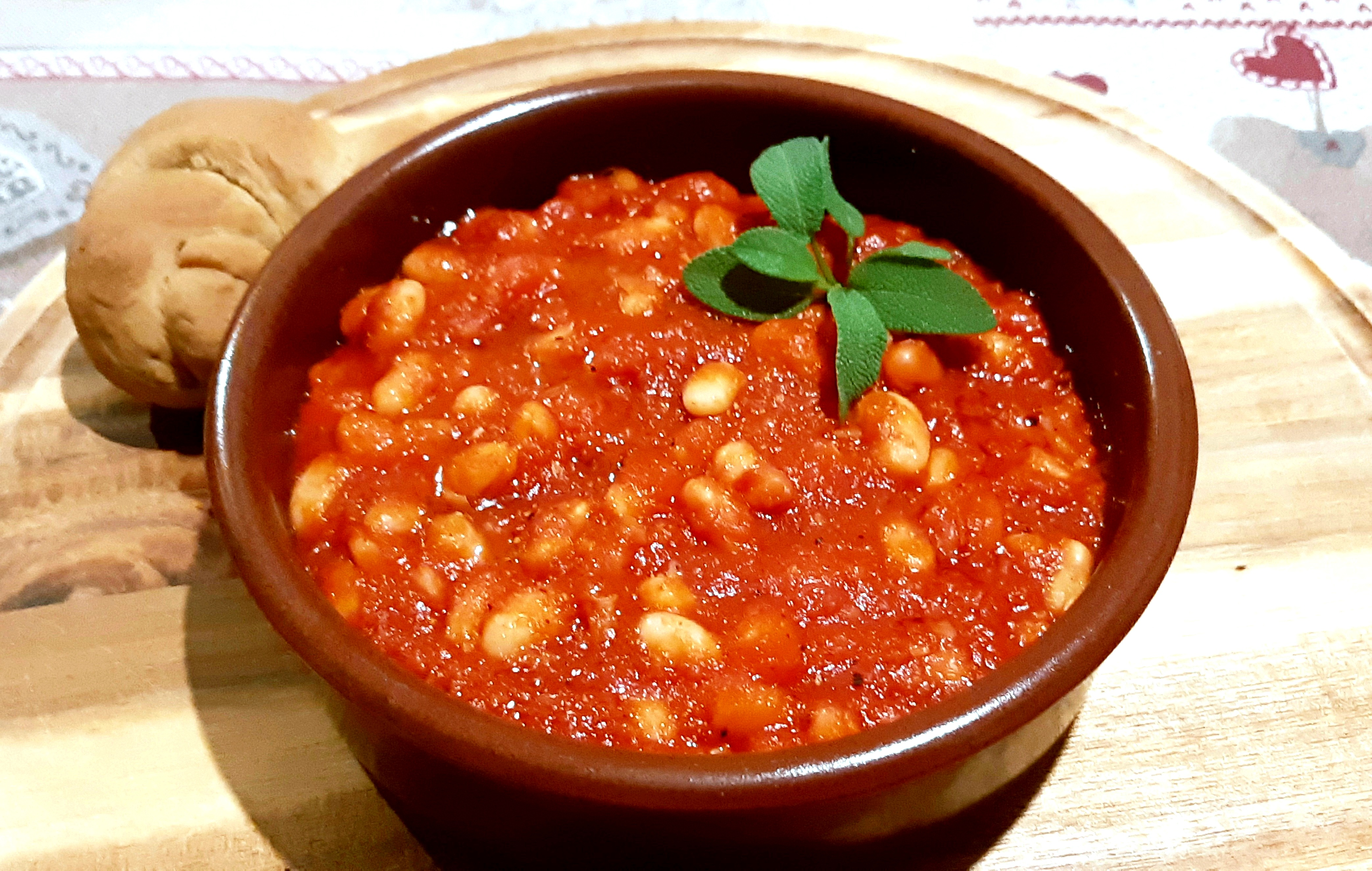 Cannellini beans "all'uccelletto" in clay dish